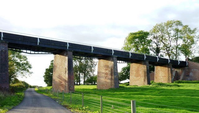 Edstone Aqueduct